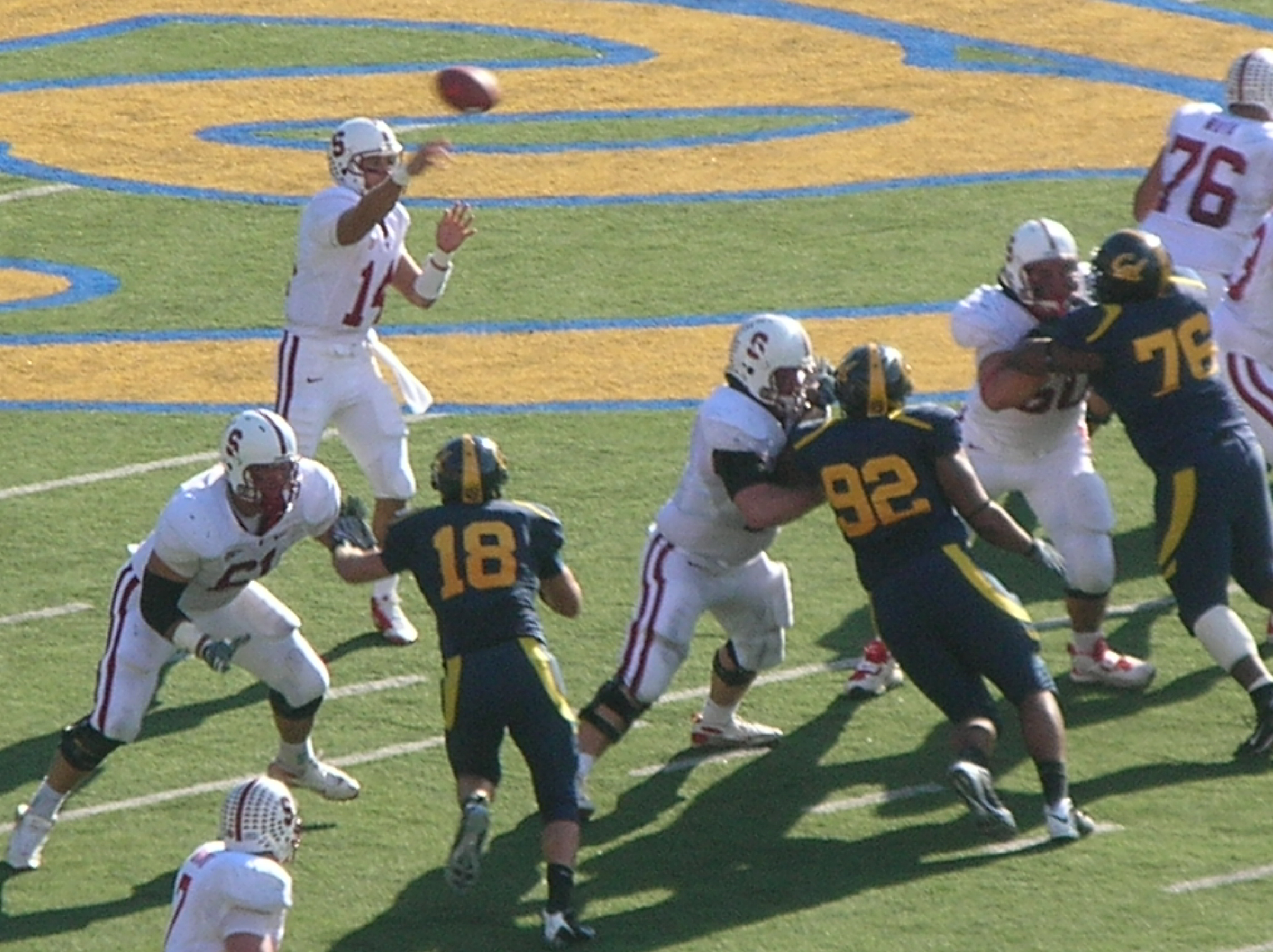 Stanford quarterback Tavita Pritchard (#14) passes the ball during the 2008 Big Game at California Memorial Stadium. The Golden Bears won 37-16.